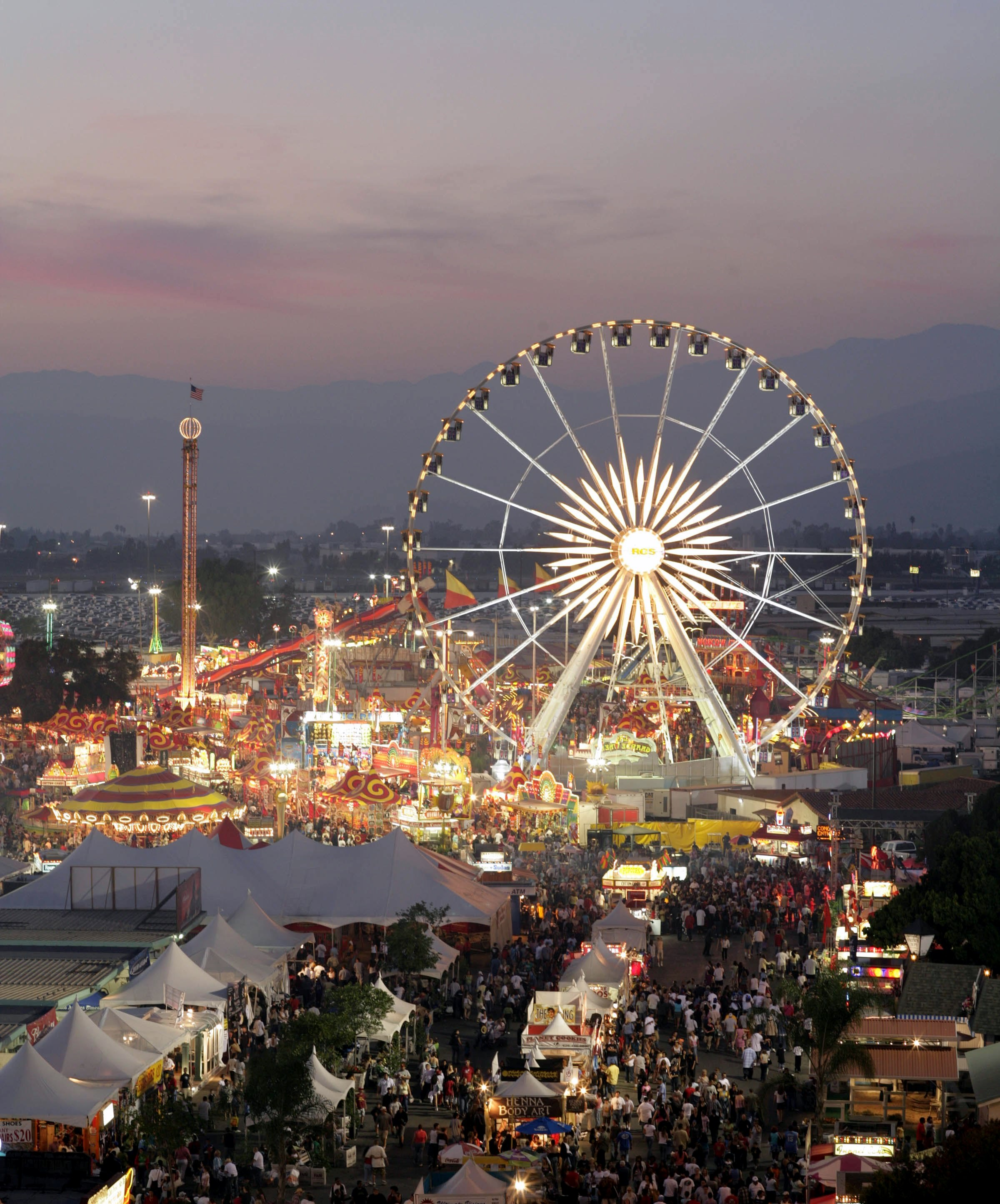 View of the Los Angeles County Fairgrounds at dusk.